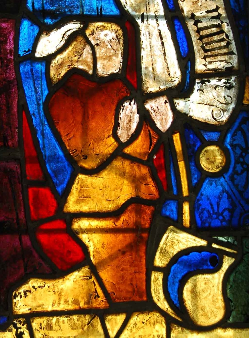 Ulrich II of Felben (Velben) at the gothic window in the church St. Niclas in Weitau near St. Johann in Tirol, Austria